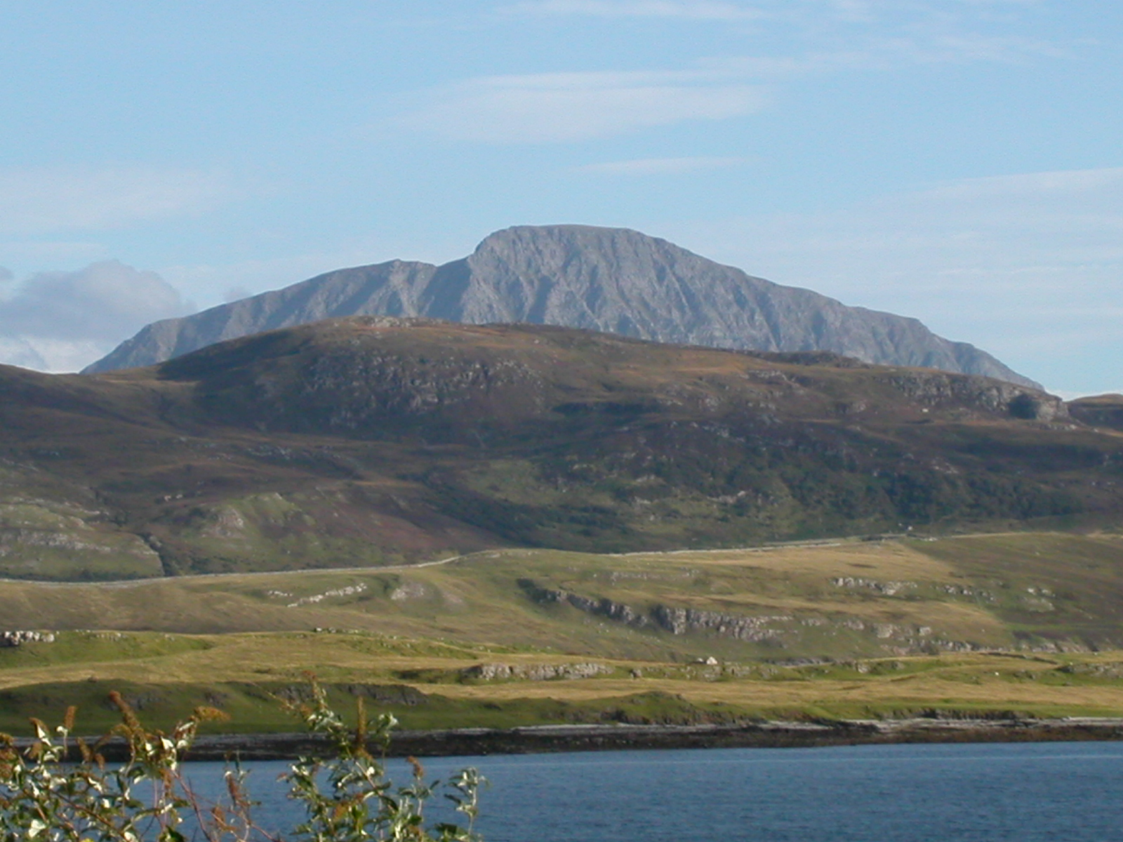 Taken by me, Squiddy, 13/9/2003, using Nikon Coolpix 2500.